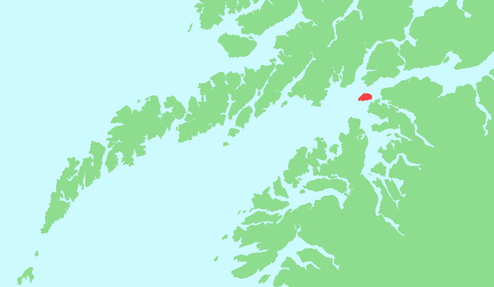 Locator map of Barøya, Nordland, Norway